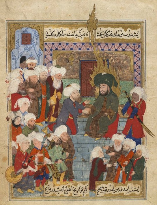 Ali Receiving the Bay'a (Swearing of Allegiance) (painting, recto; text, verso), folio from a manuscript of Maktel-i Ali Resul of Lami‘i Chelebi